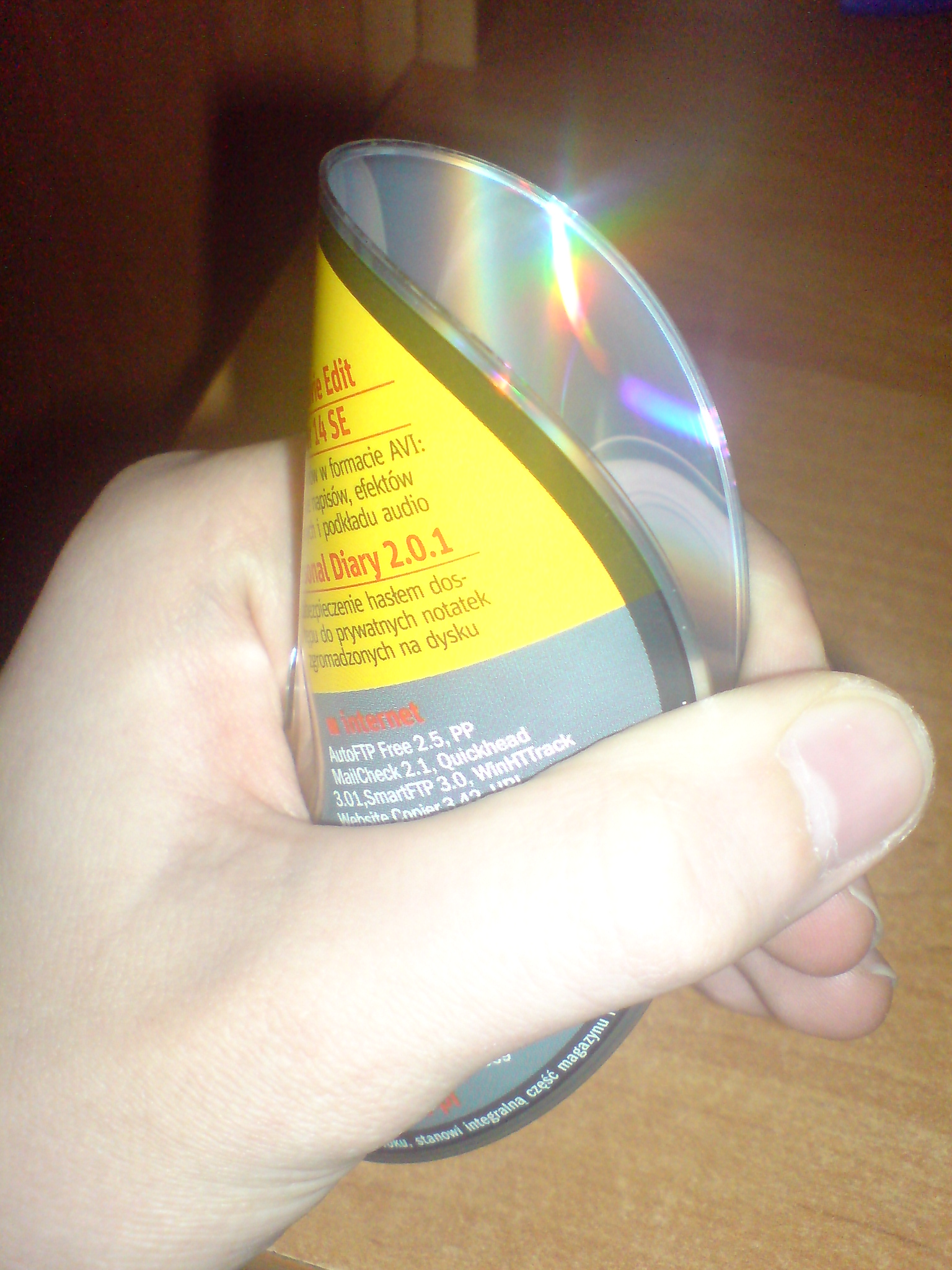 Disc DVHD added to NEXT magazine